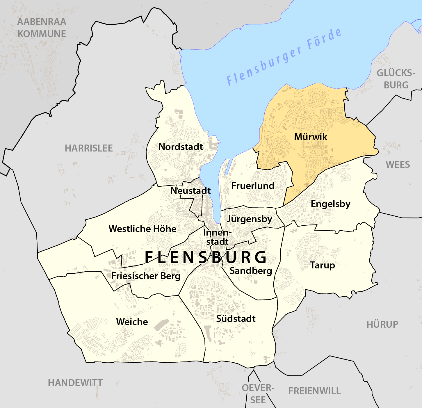 Locator map of the borough of Mürwik in Flensburg